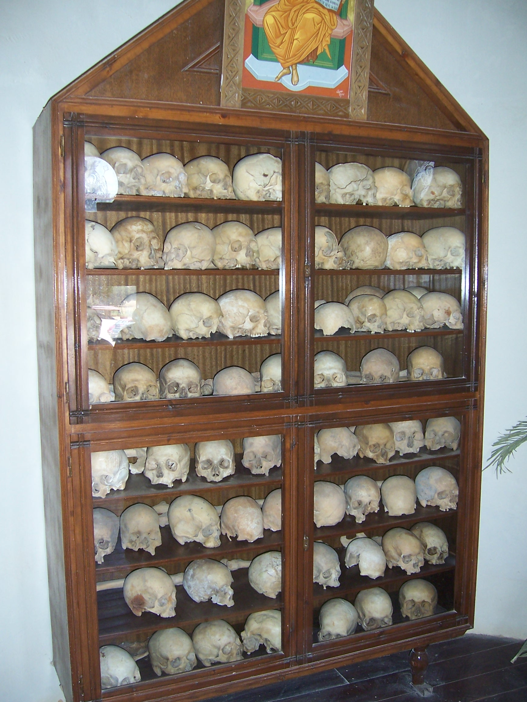 Monastery of Arkadi.